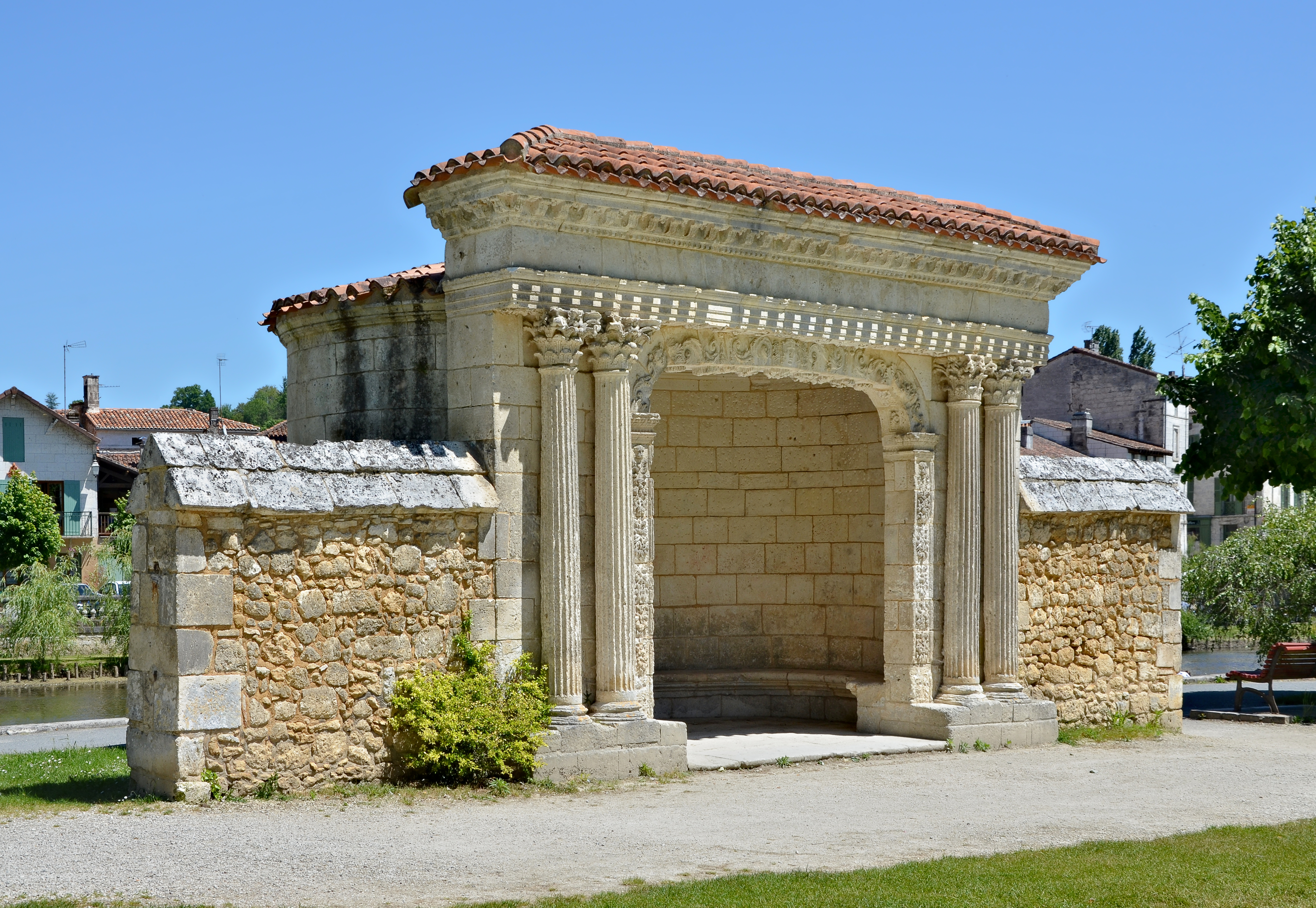 16th-century resting place, recently refurbished, "Jardin des moines", Brantôme, Dordogne, France.